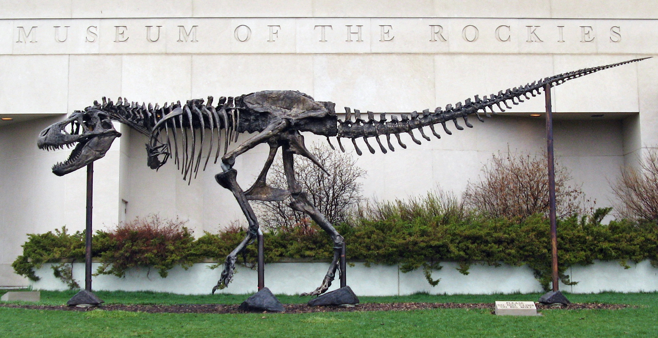 Tyrannosaurus rex "Big Mike", Museum Of The Rockies, Bozeman, Montana / 2008